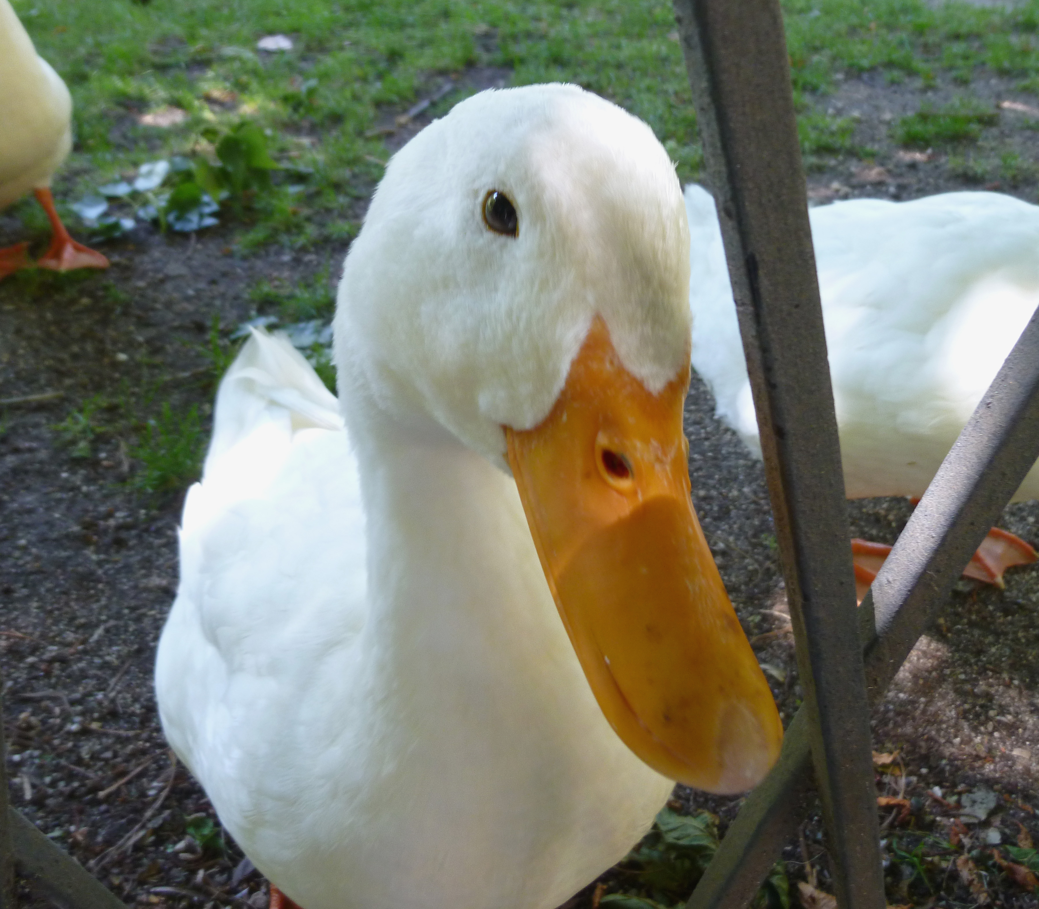 A Pekin duck (Anas platyrhynchos domesticus) in Retiro Park in Madrid (Spain).